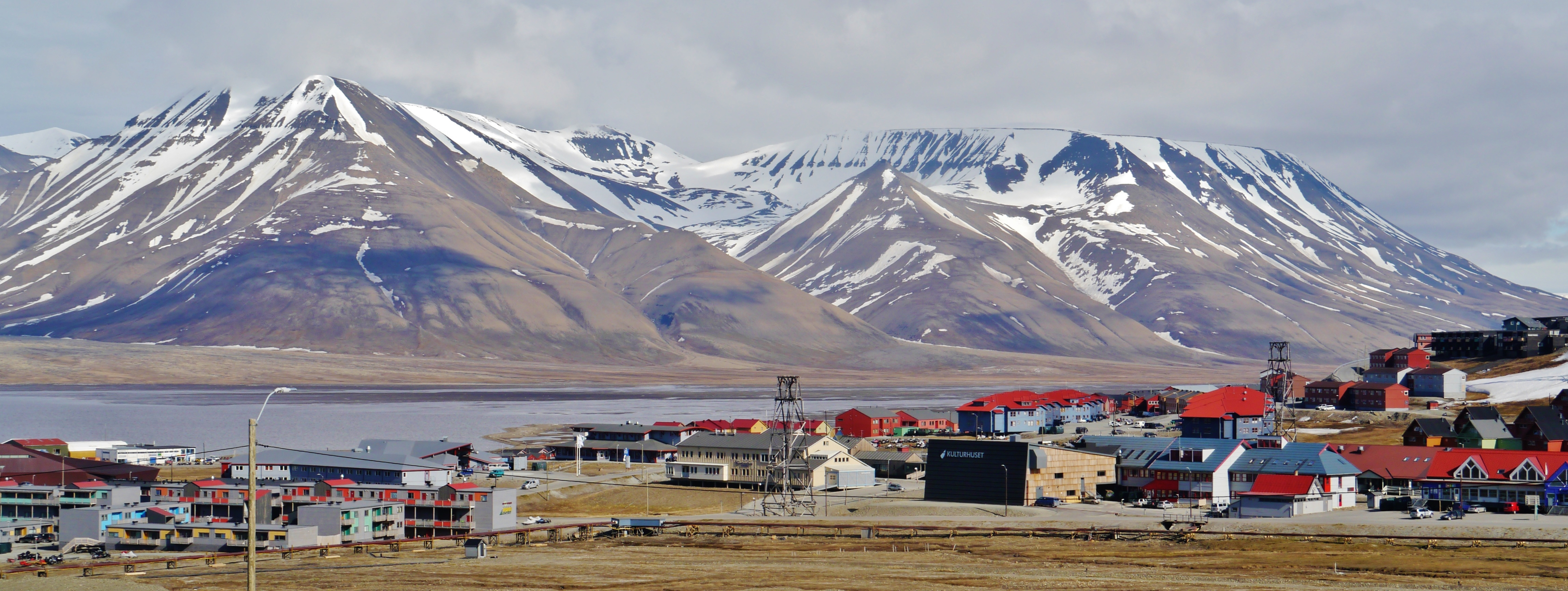 Longyearbyen, Spitsbergen, Norway